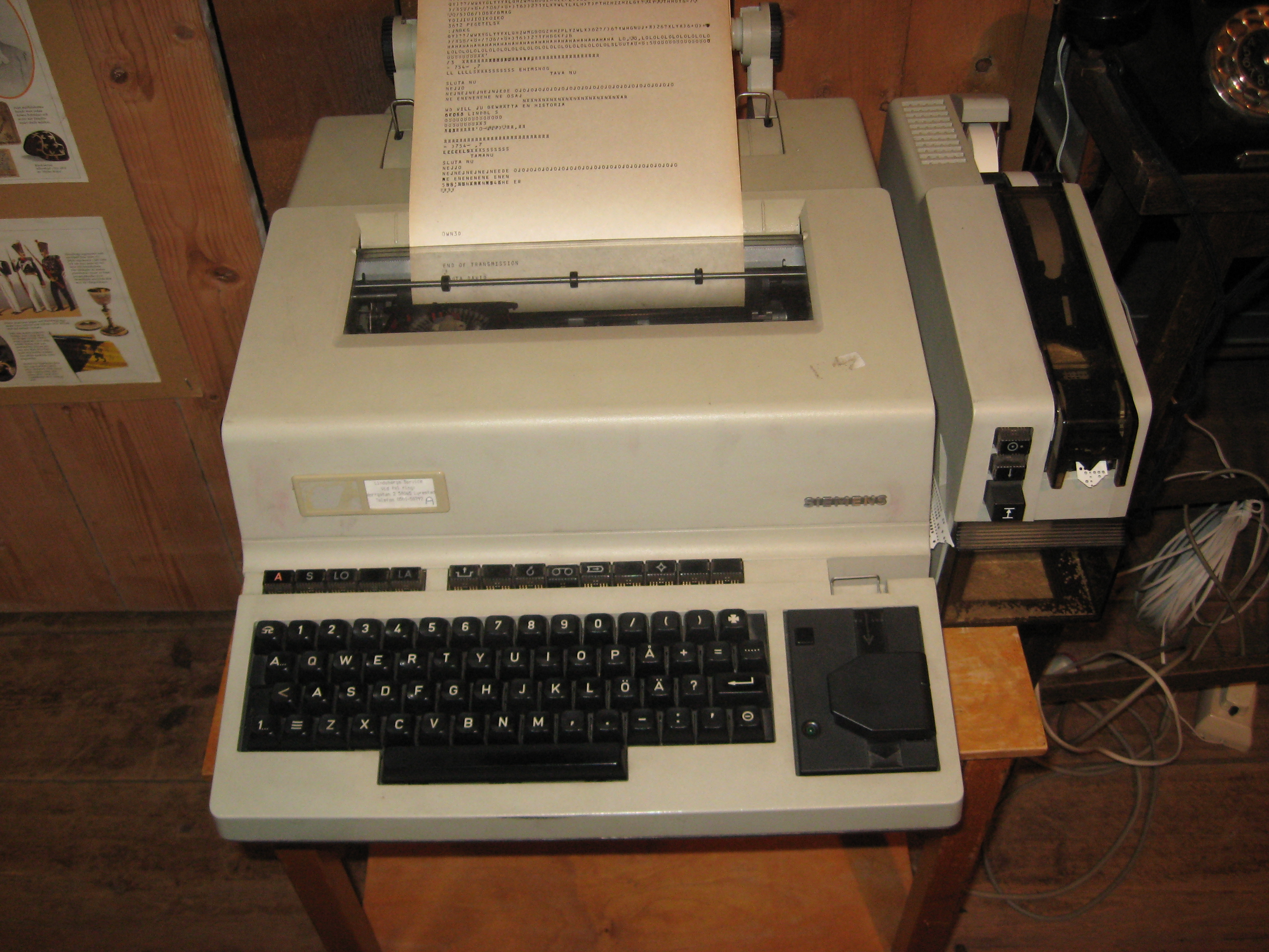 Telex machine